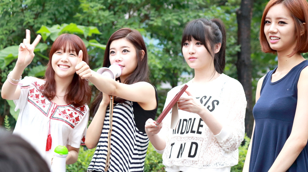 Girl's day at a fan meeting on July 7, 2013